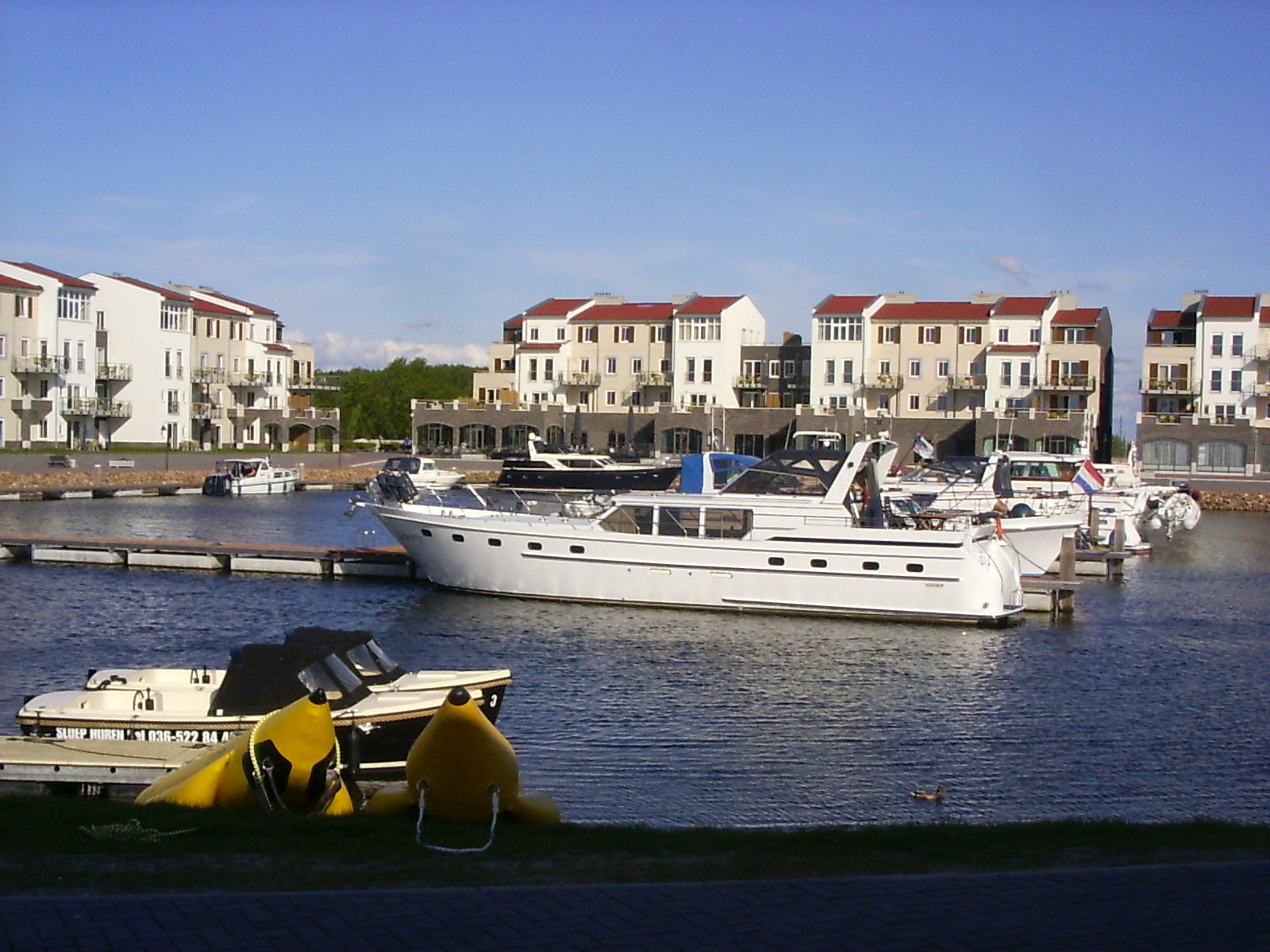 Eemhof Marina. Inspired by Port Grimaud.